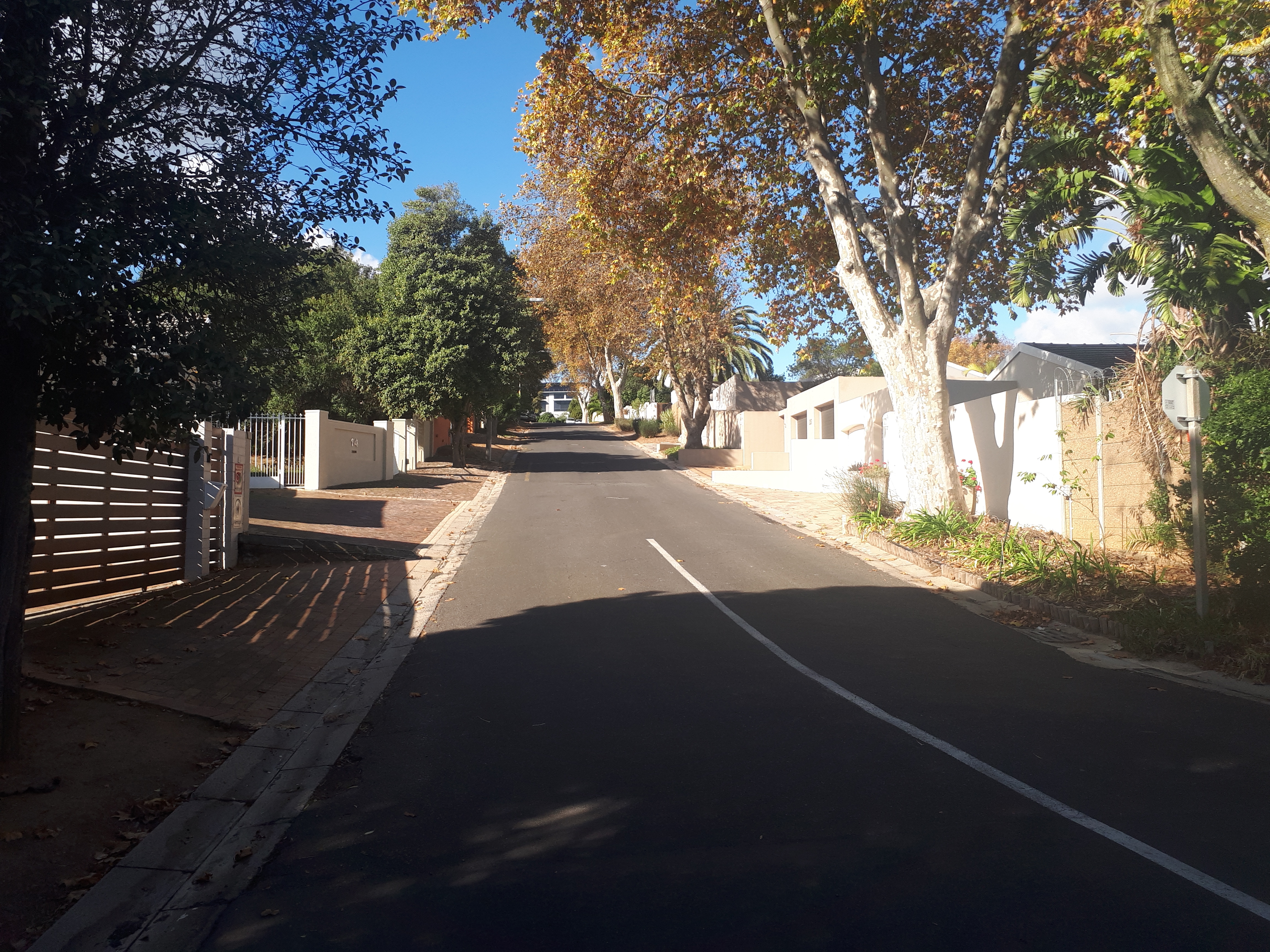 Kenridge today